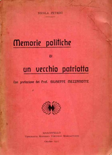 Cover of memory Book written by Petrini published 1911